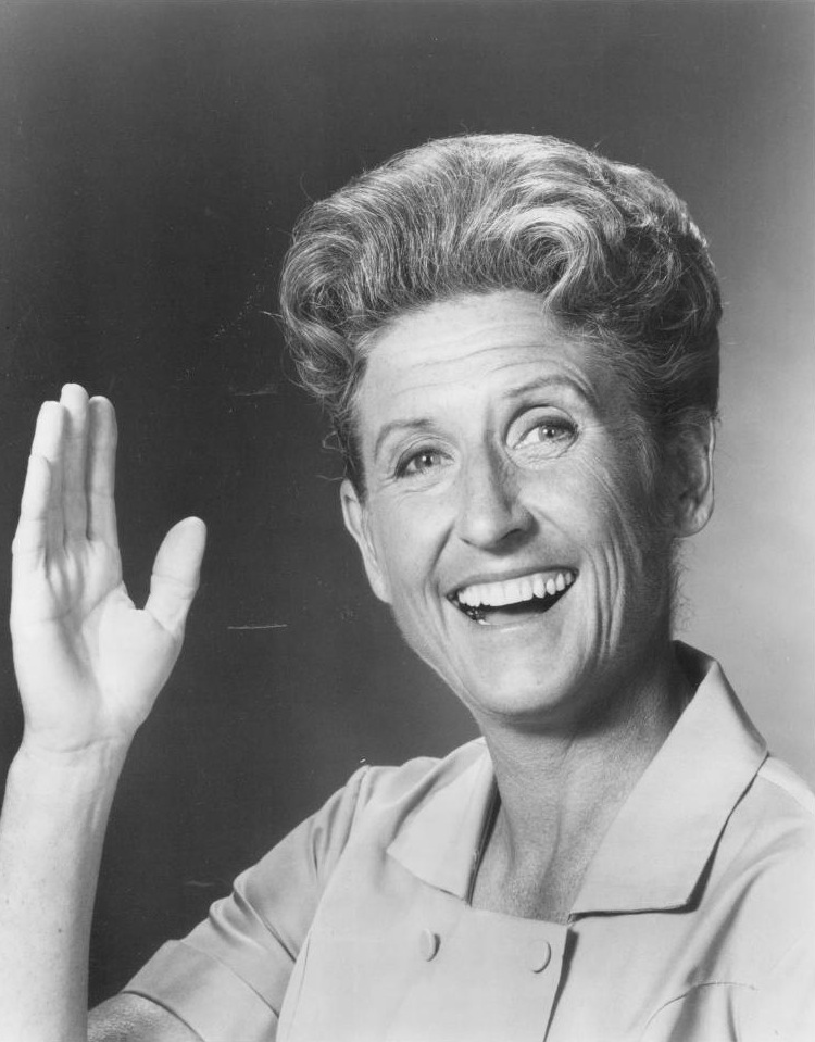 Publicity photo of American actress, Ann B. Davis, circa 1977.